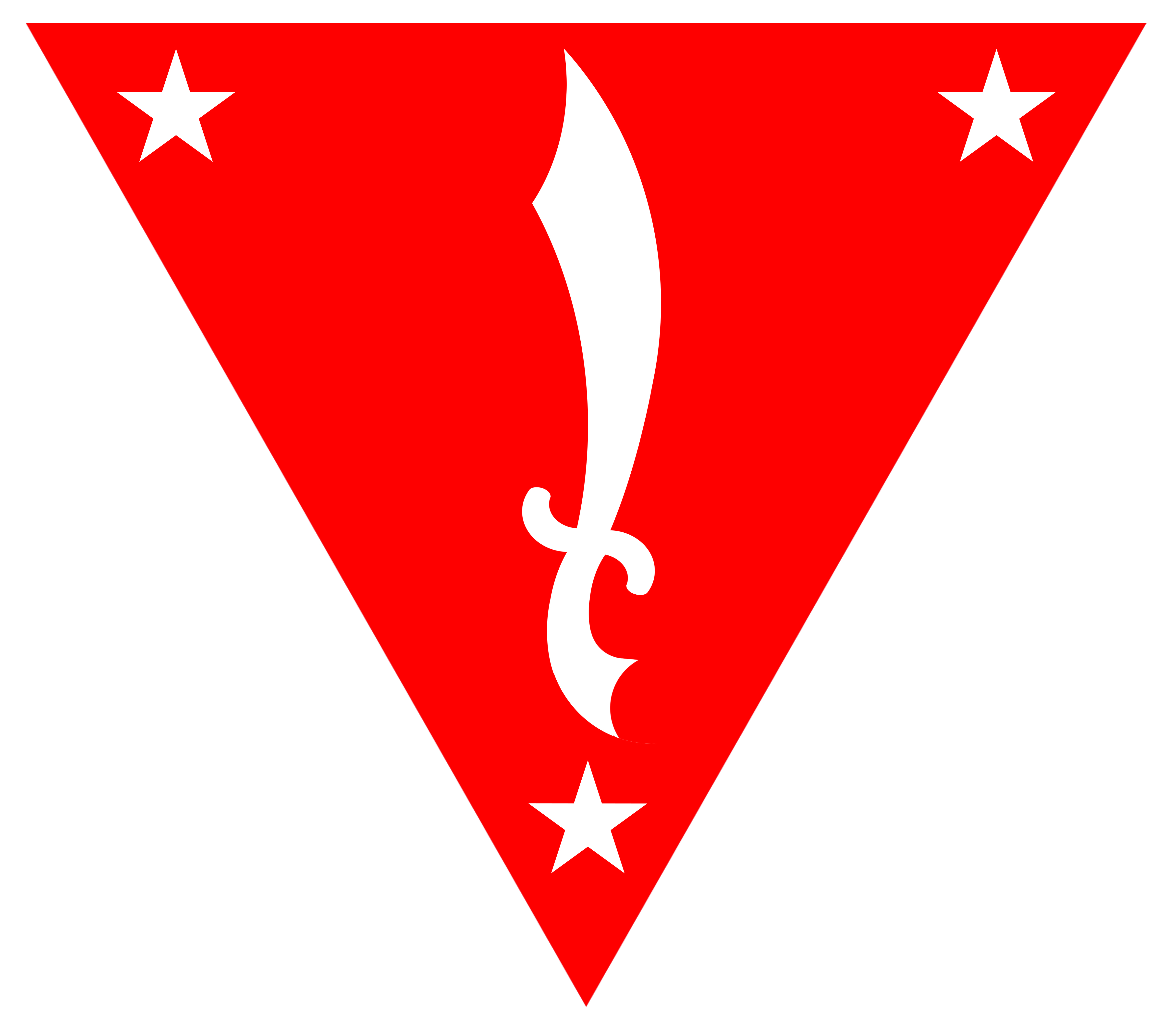 1st Philippine Division emblem from 1941-42, probably developed as early as 1936; color versions of this are a matter of record, and bronze version(s) of these emblems are seen on monuments around the Philippines.